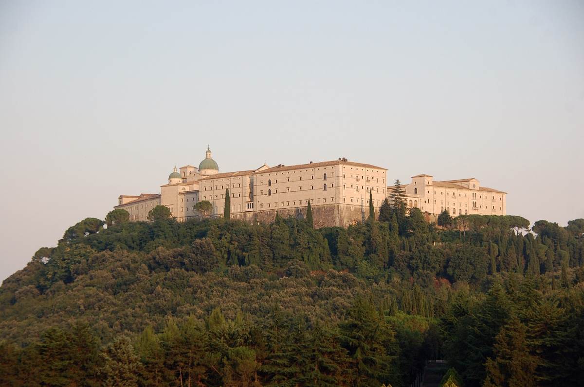 Monte Cassino Archabbey 2010